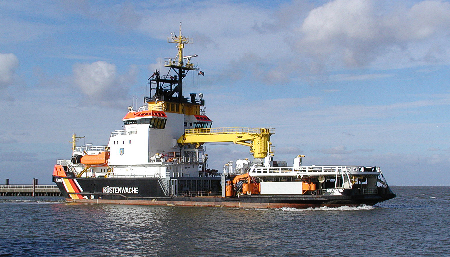 Die Neuwerk in Cuxhaven IMO number : 9143984 Call Sign : DBJM Gross tonnage : 3422 Year of build : 1998